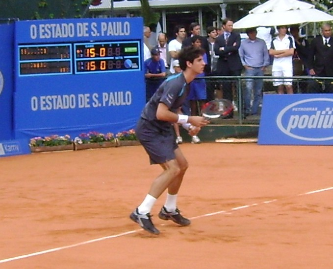 Thomaz Bellucci at São Paulo Challenger